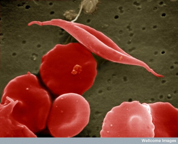 Sickle cells